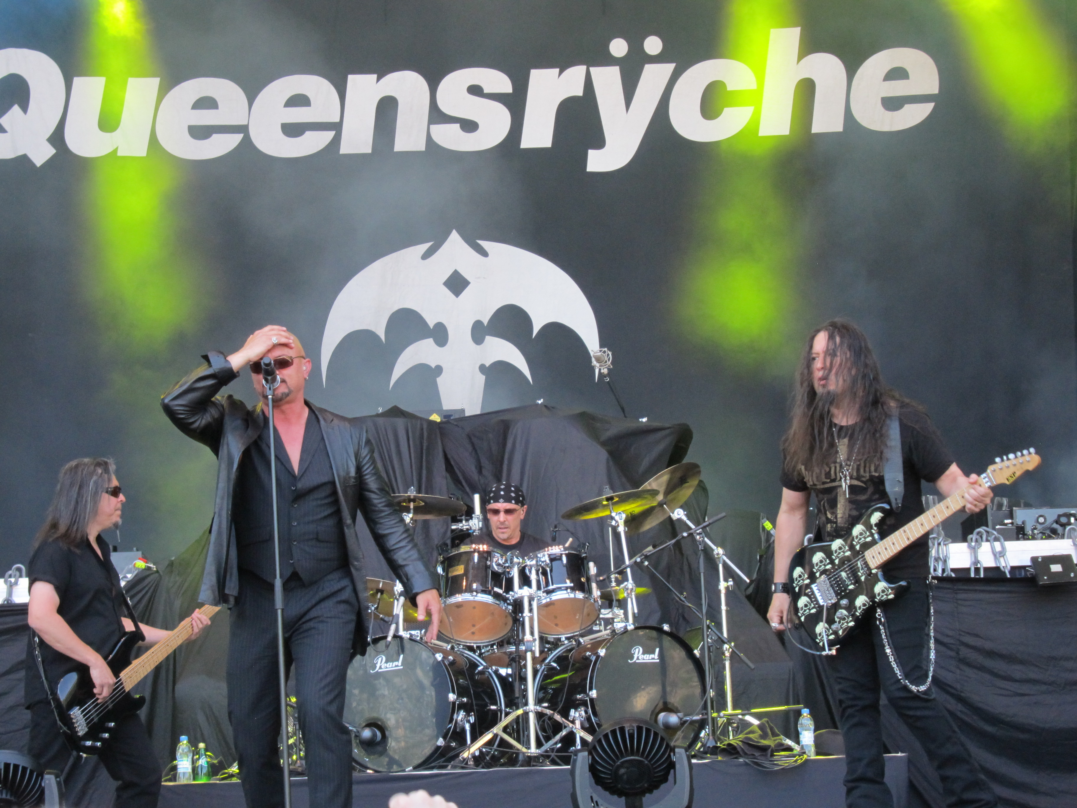 Queensrÿche performing at the Sauna Open Air Metal Festival in Tampere, Finland.